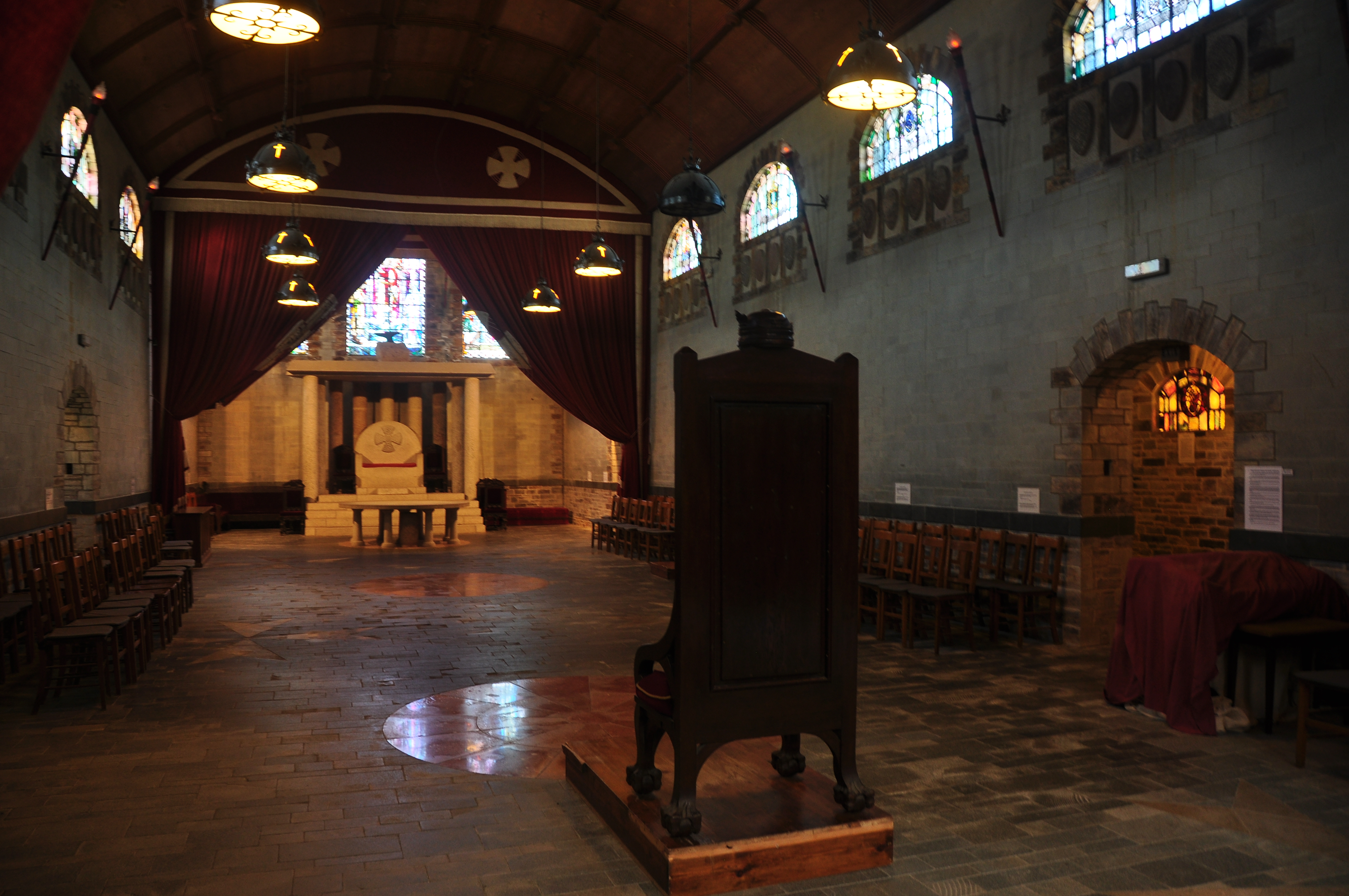 King Arthur's Great Halls, Tintagel